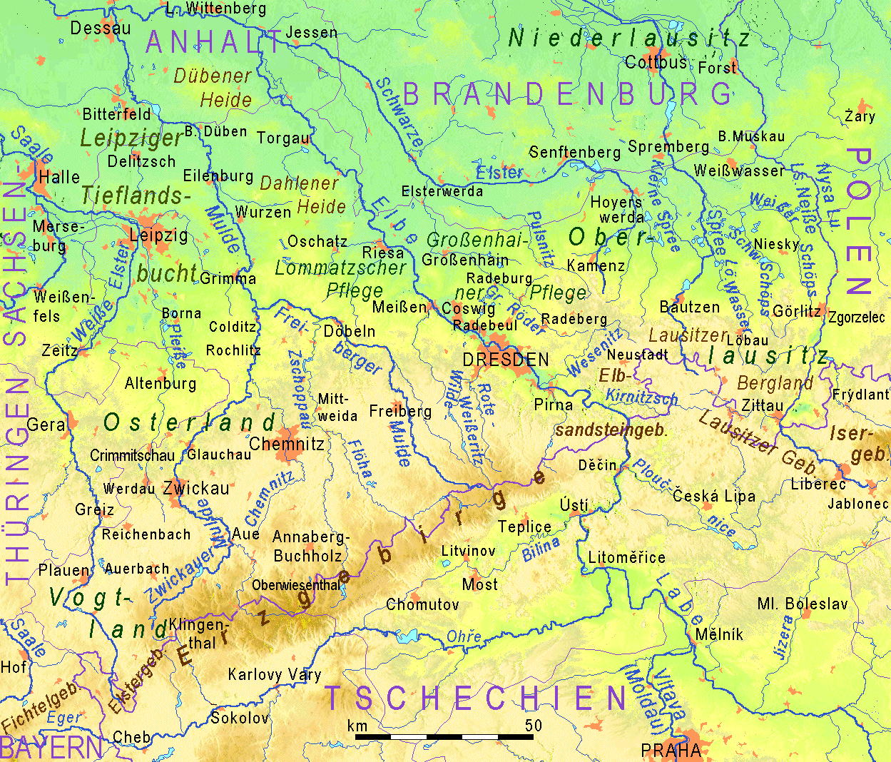 Saxony – geography